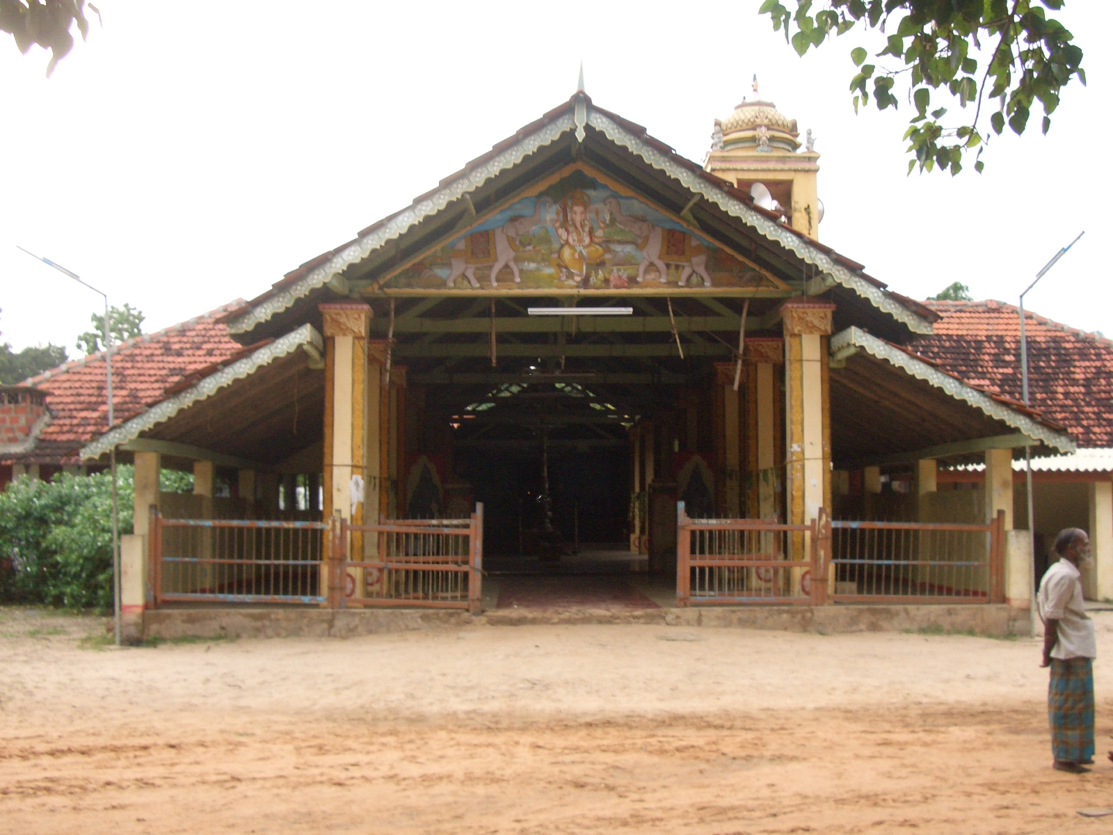 This is front view of a hindu Temple in Sri Lanka Mullaitivu Mullaiyavlai.